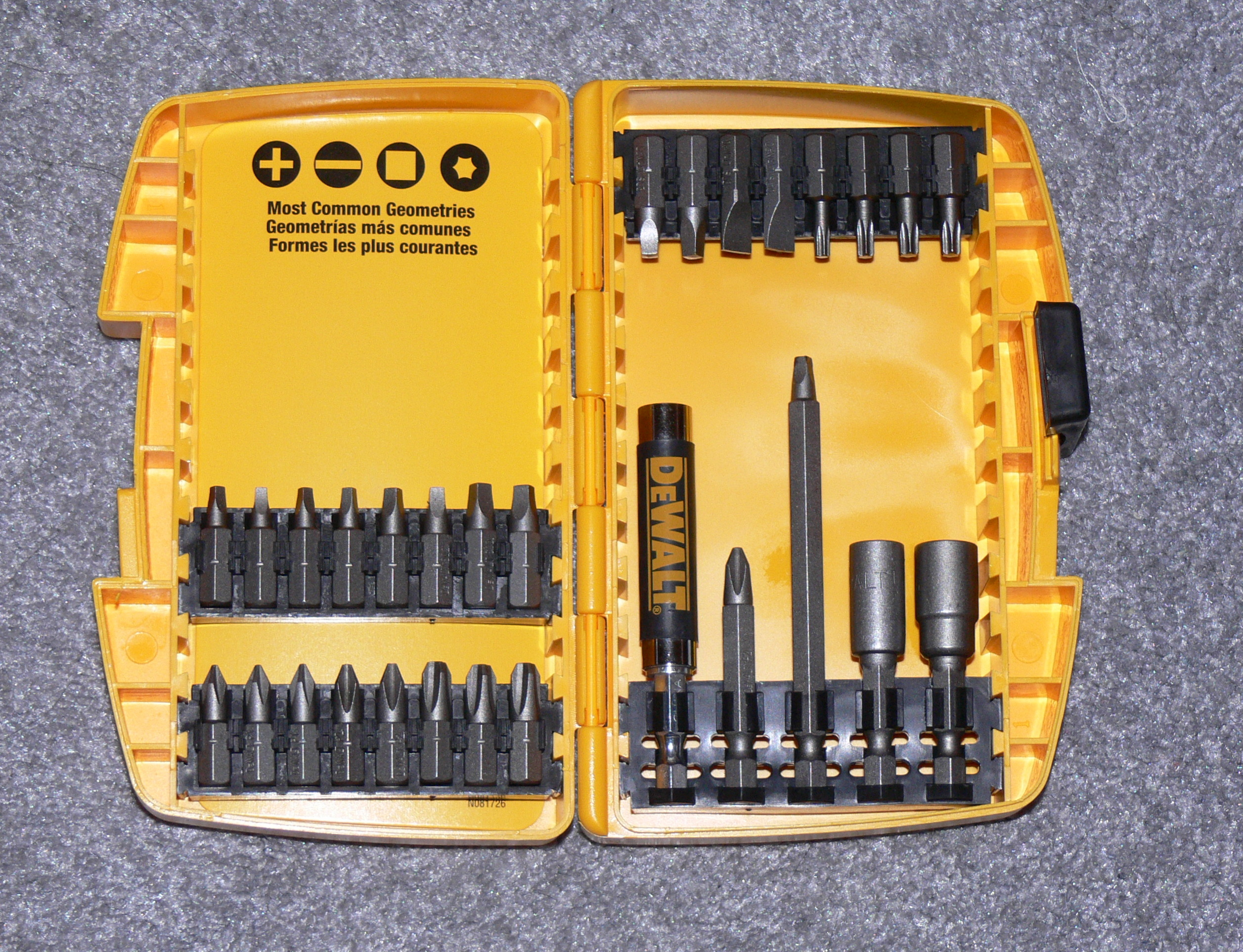 Impact driver bits, with drive guide and hex nut bits